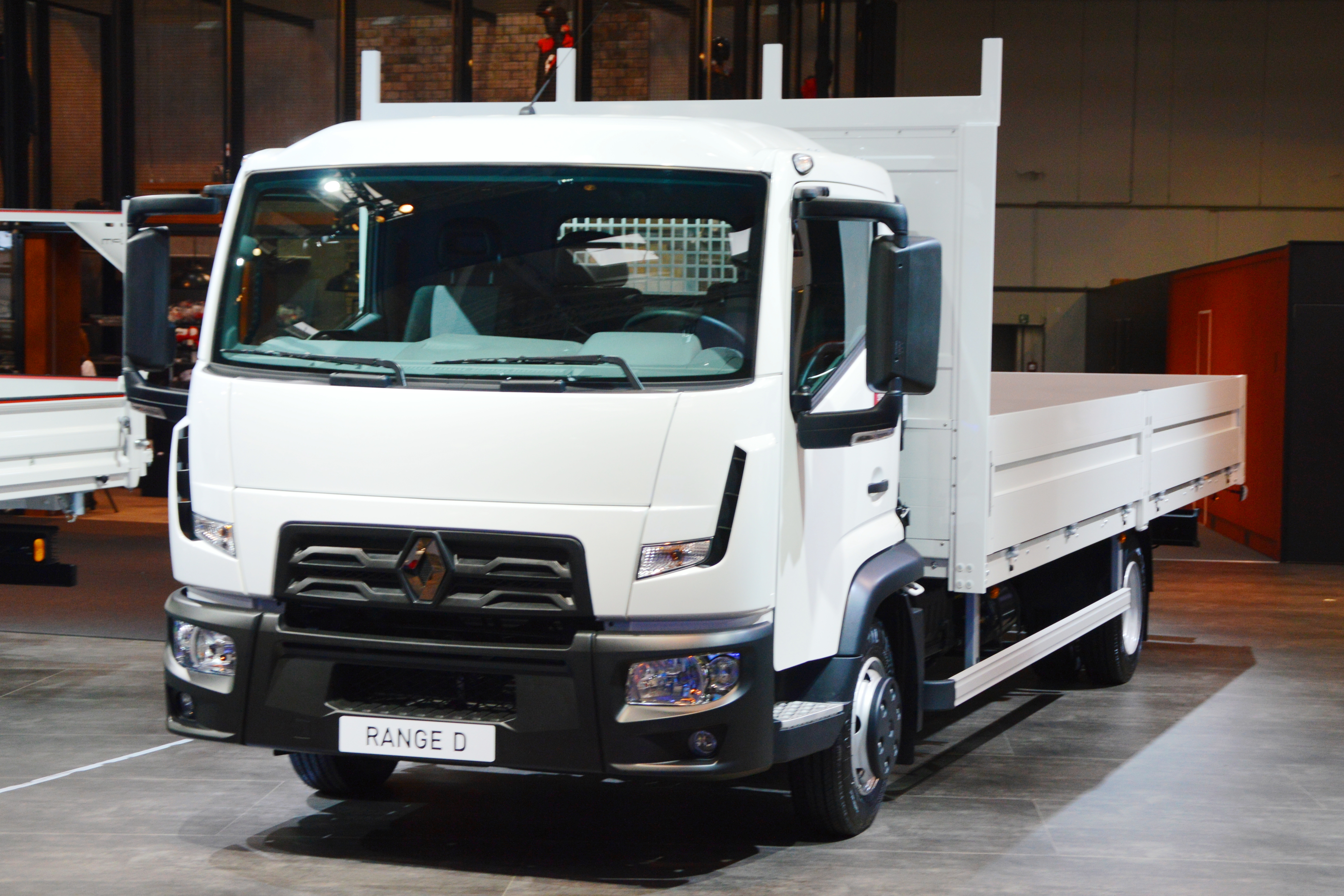 Renault truck D 7.5. Engine: DTI 3 -130 kW / 180 hp at 2600 rpm. Torque 540 Nm. 6-speed manuel gearbox. Exhaust brake. 4 x 2 chassis cab. Wheelbase: 4300 mm. GVW 7,5 to.